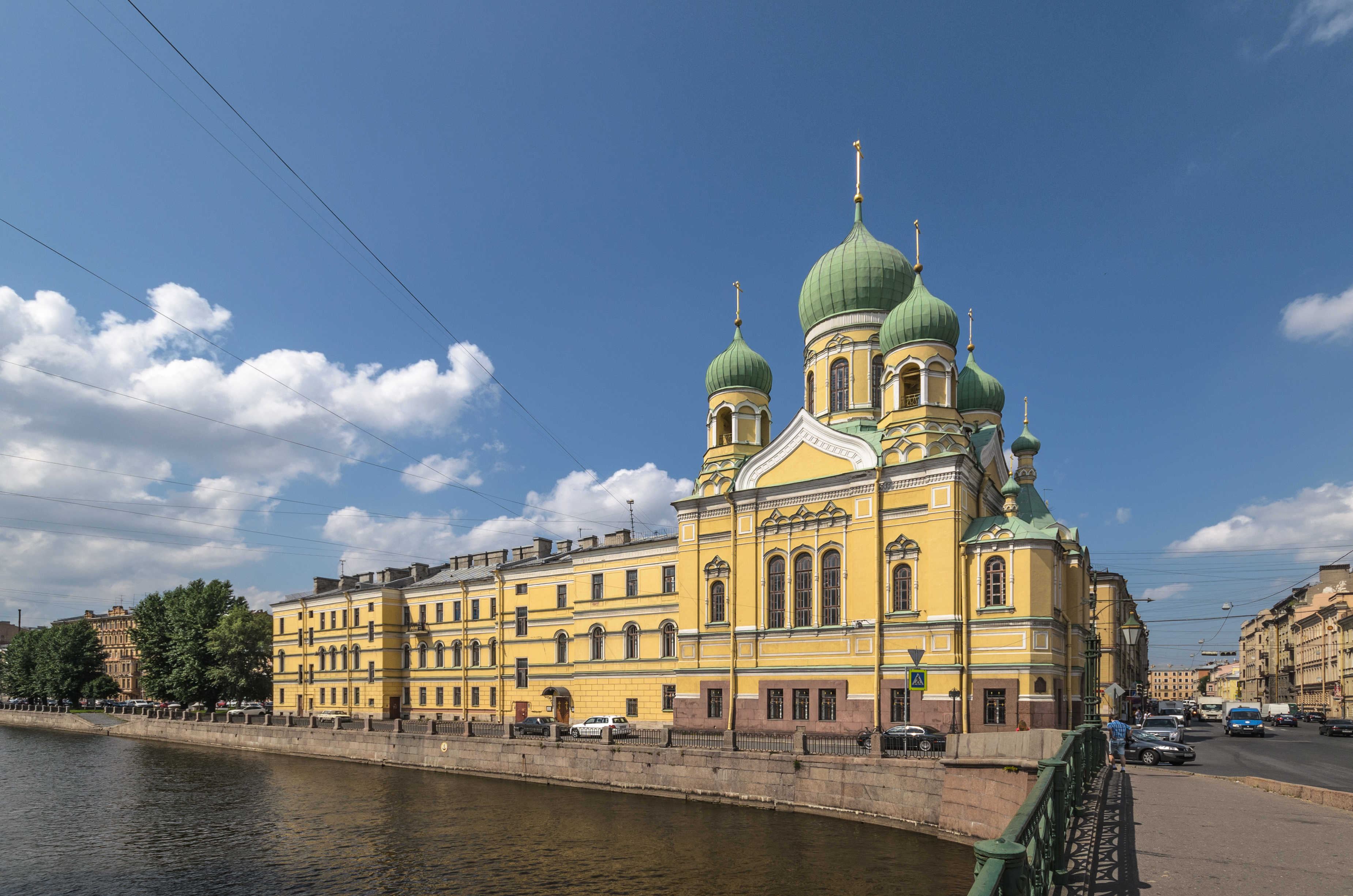 Saint Isidor's Church in Saint Petersburg